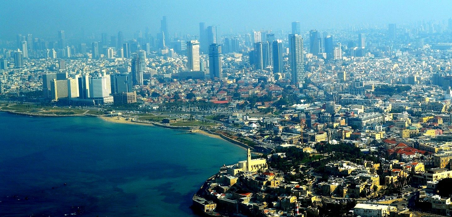 An aerial view of Tel Aviv and Jaffa